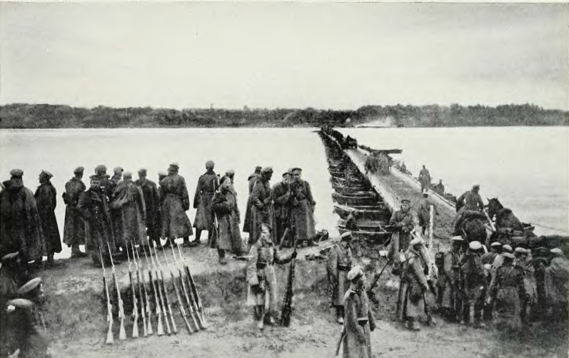 Russian troops on the Vistula, c. 1915.